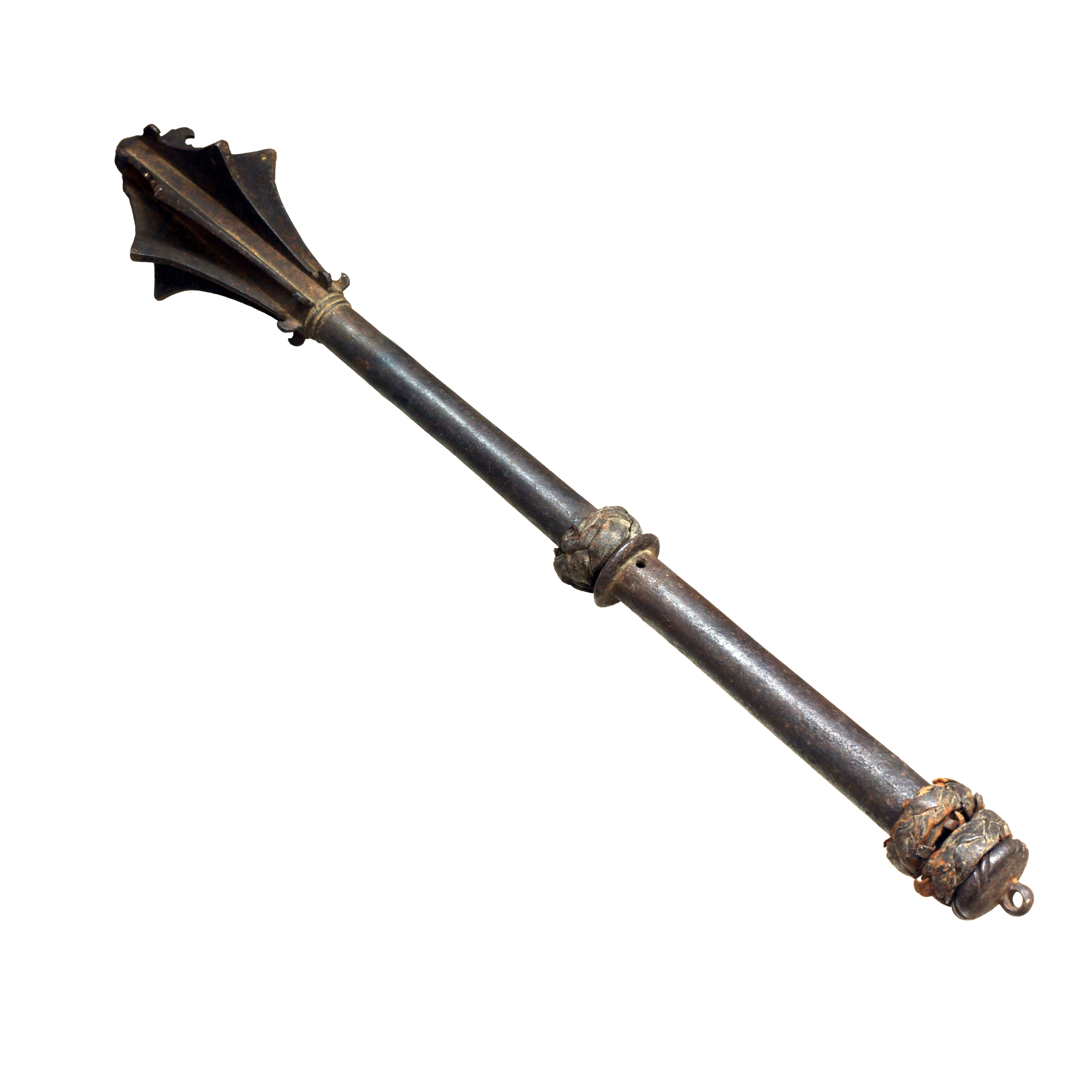 Mace, central Europe, ca. 1500-1550. On display at Morges military museum.